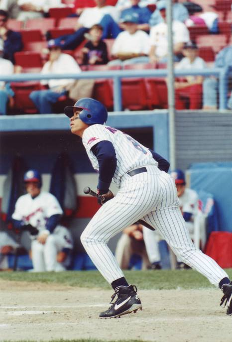 Alex Rodriguez batting during a 1994 Calgary Cannons minor league baseball game.